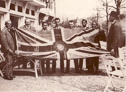 British-Indian hockey players arrive in Holland for the 1928 Olympic games.